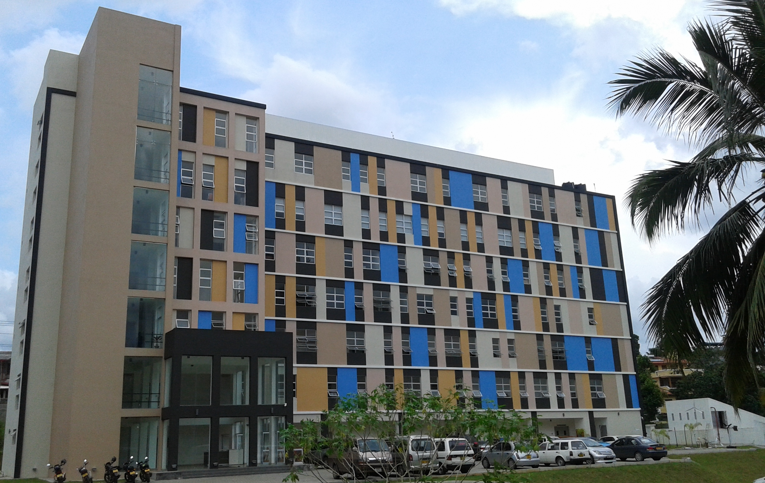 Photograph of SLIIT Engineering Department Building.